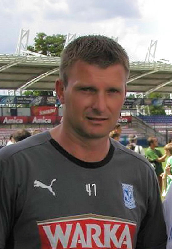 Andrzej_Juskowiak - former player and curren staff of Lech Poznań